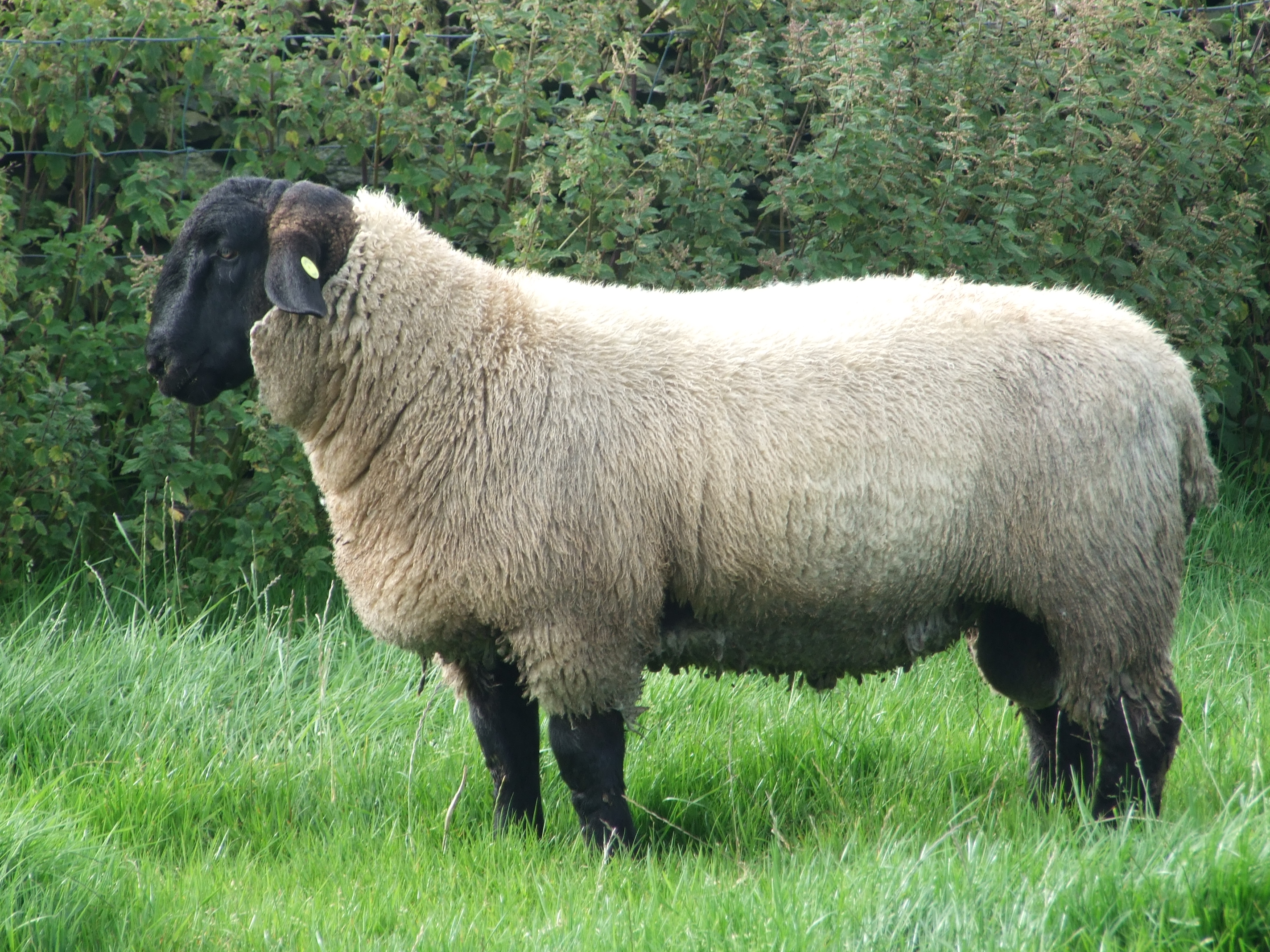 A picture of a 7 month year old Suffolk ram lamb.